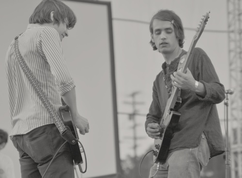 Strange Boys - Live in Concert